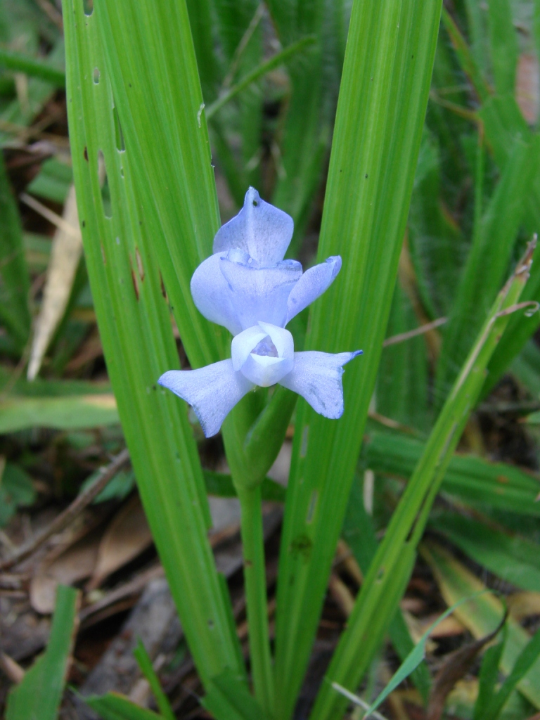 A Flower of Cipura paludosa Aubl., the most widespread species of genus.